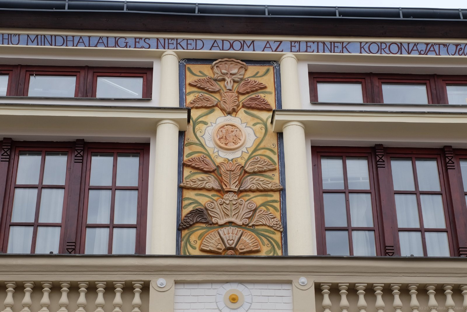 Relief on Nyilas Misi House, 15 Kossuth Street, Miskolc, Hungary